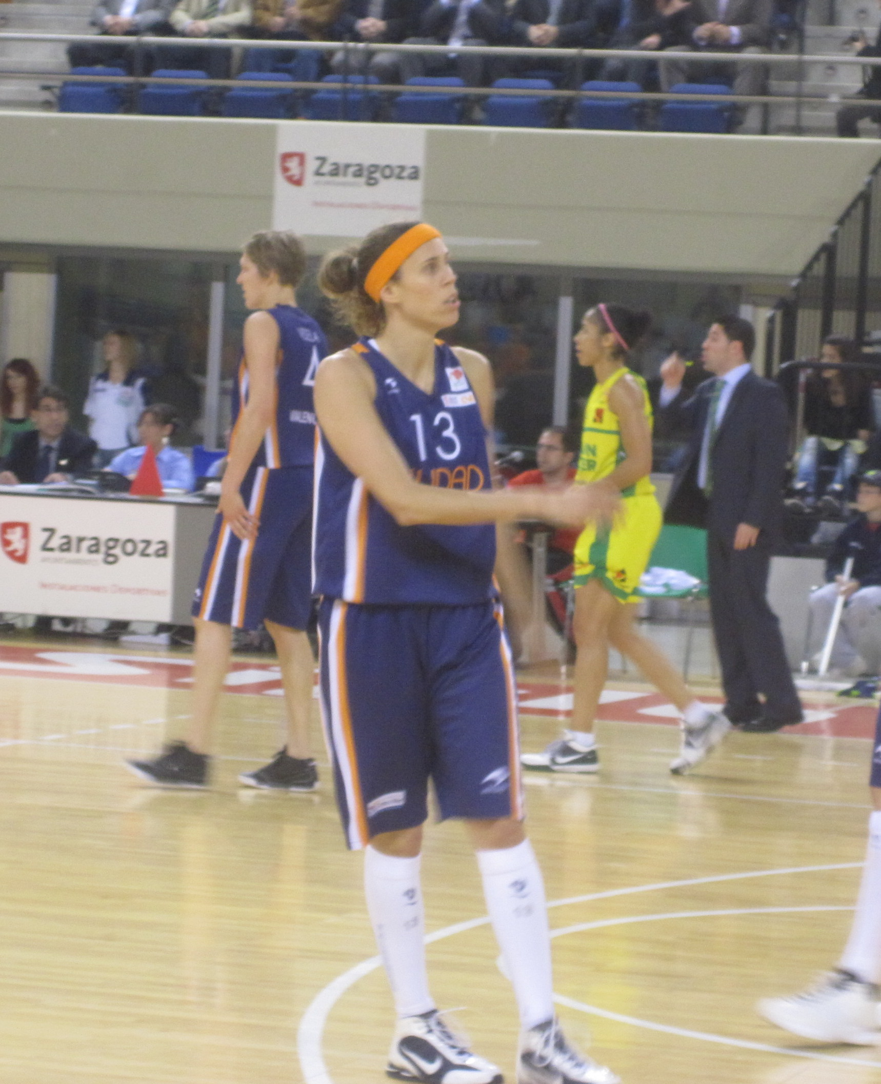 La Jugadora Española de baloncesto Amaya Valdemoro.